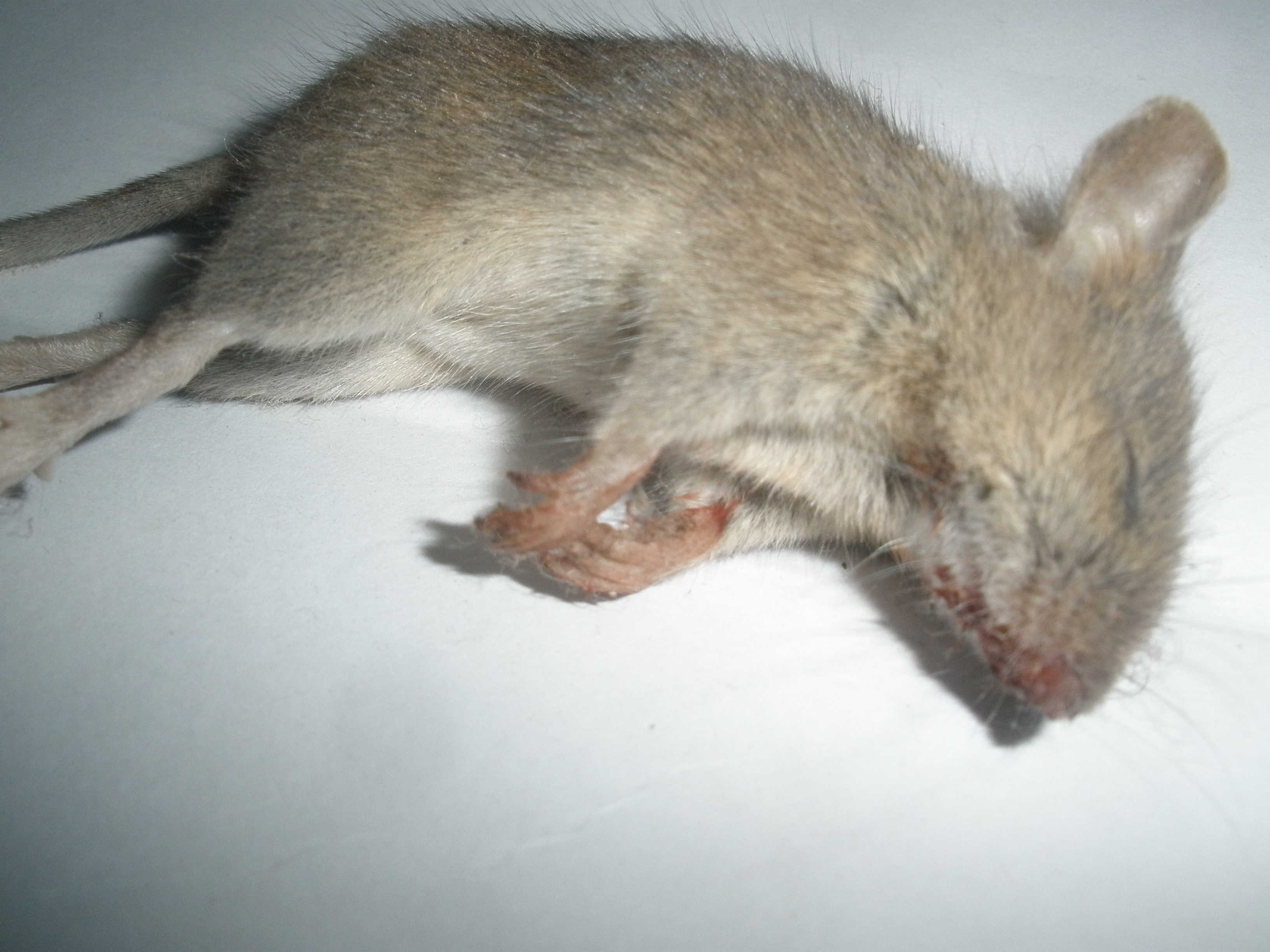 rodent killed by poison